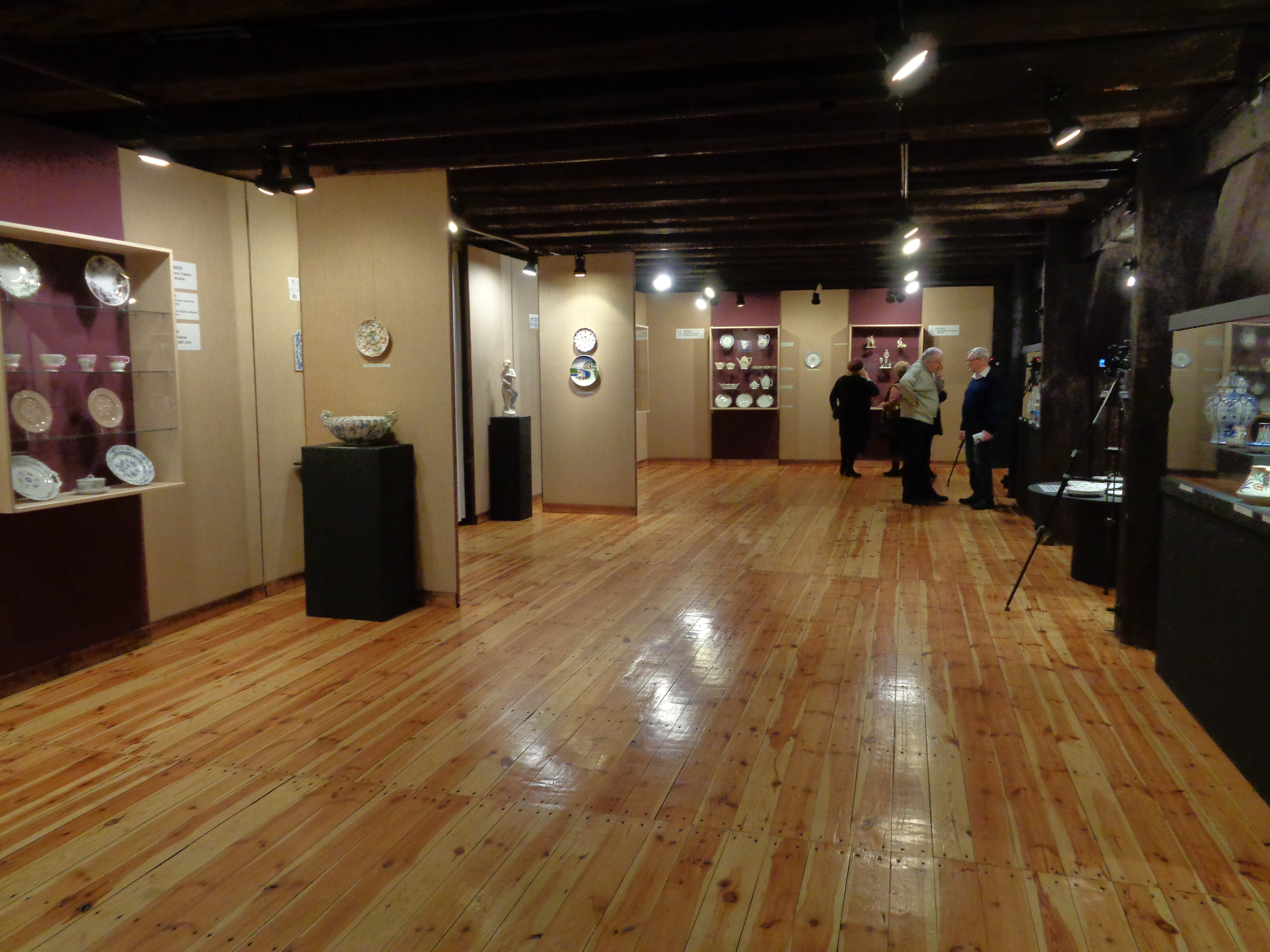 Vernissage of the Faience Exhibition in Kuyavian and Dobrzyń region Museum in Włocławek, in agency of the Art Collection by the Zamcza Street, 10.02.2017.